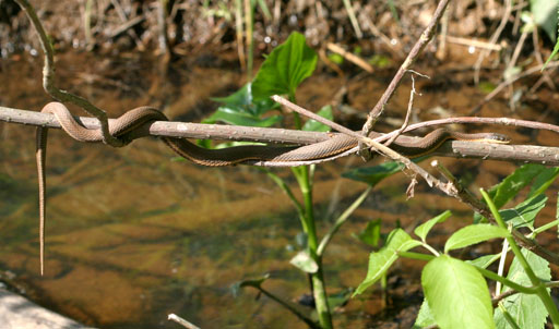 Queen Snake, Regina septemvittata. Location: Eno River State Park, Orange County, North Carolina, United States